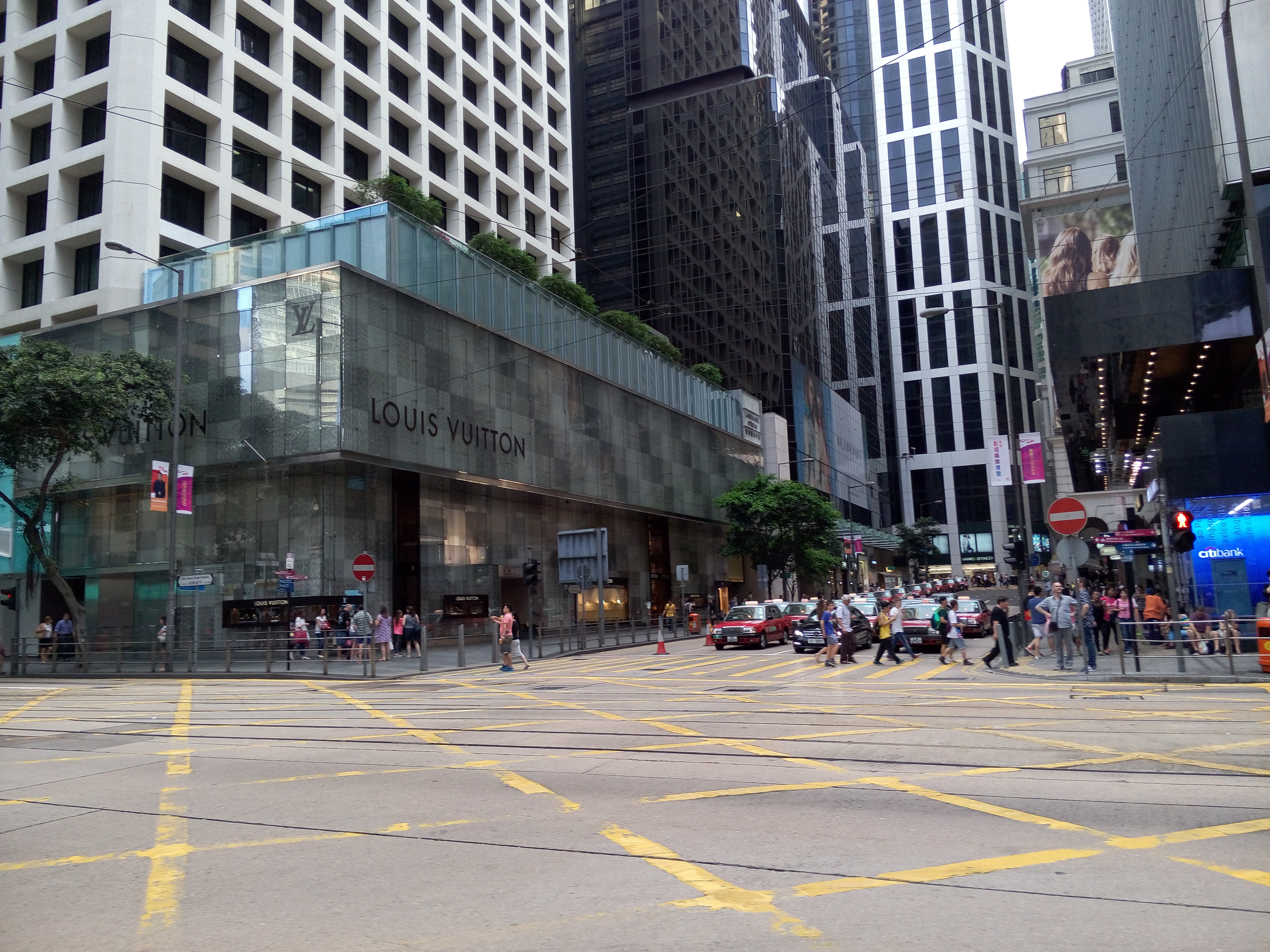 From the SE corner